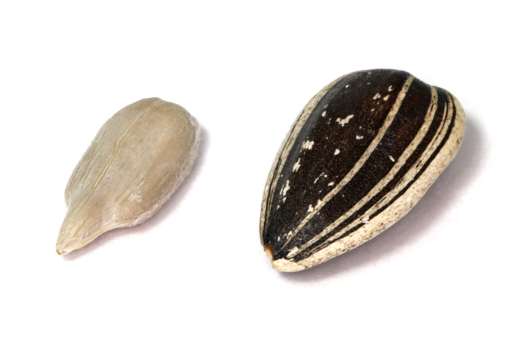 Sunflower seeds, hulled (achene) and dehulled. Focus stacked from 7 images.